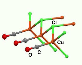 Part of CuCl(CO) framework, from X-ray structure.